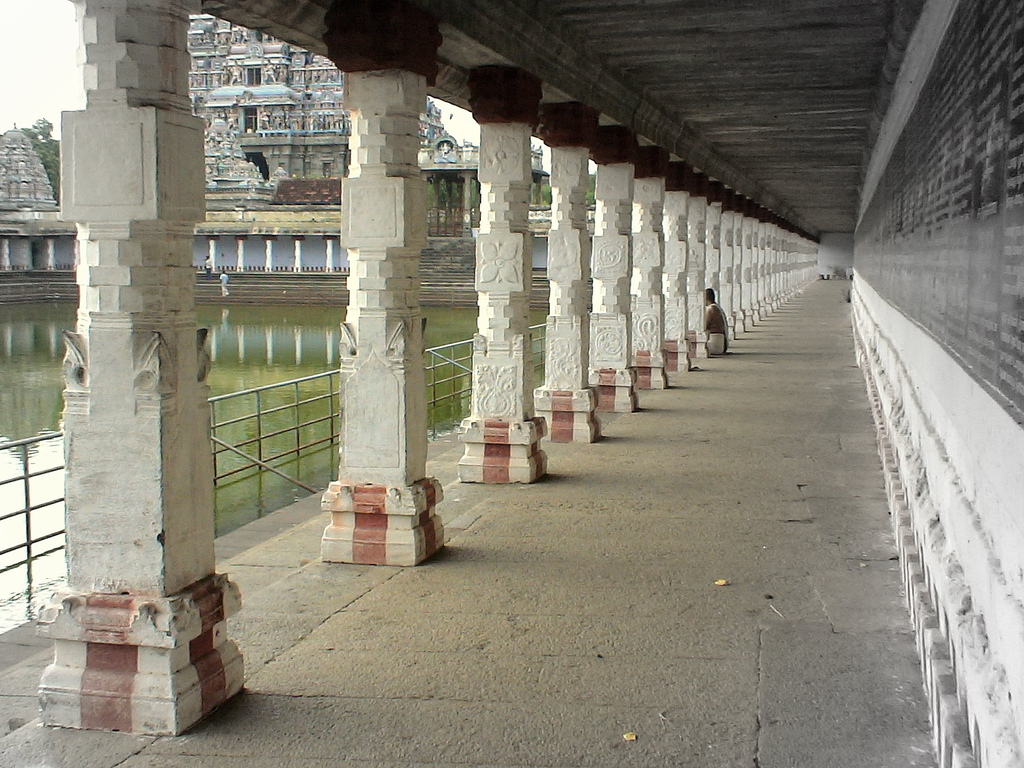 Porch of the Shivaganga tank at the Nataraja Temple in Chidambaram, Tamil Nadu, India